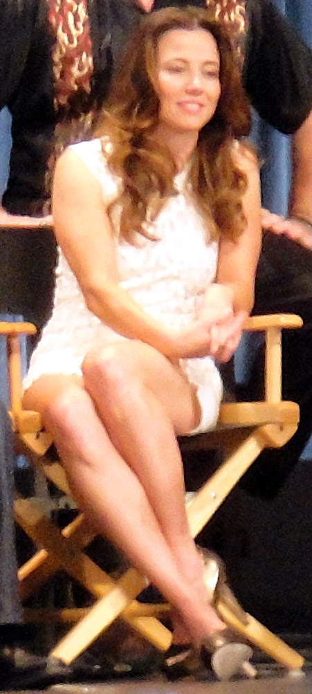 photo © 2011 taken by Doug Kline